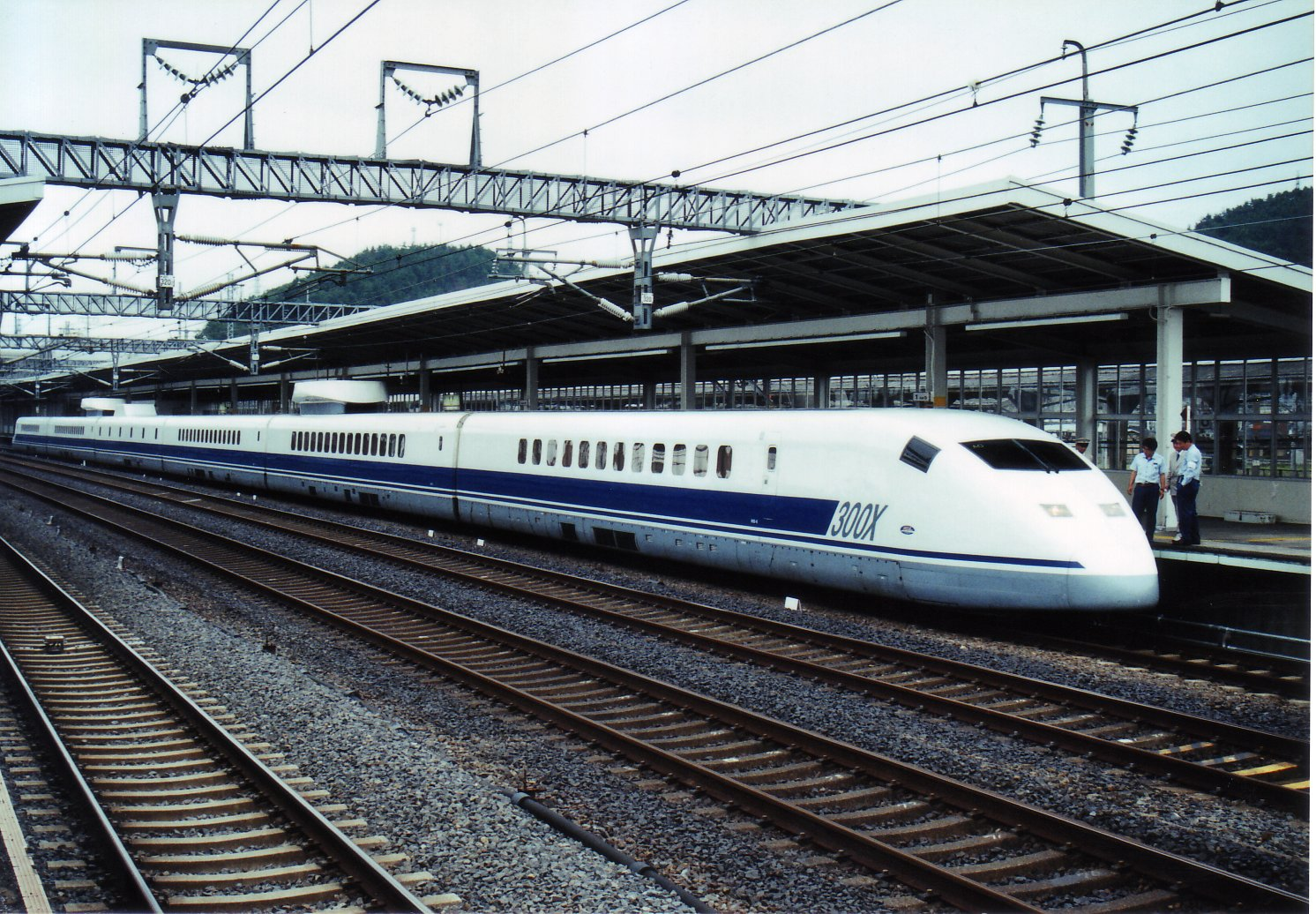 JR Central Class 955 "300X" experimental shinkansen set A0 at Maibara Station on a daytime test run